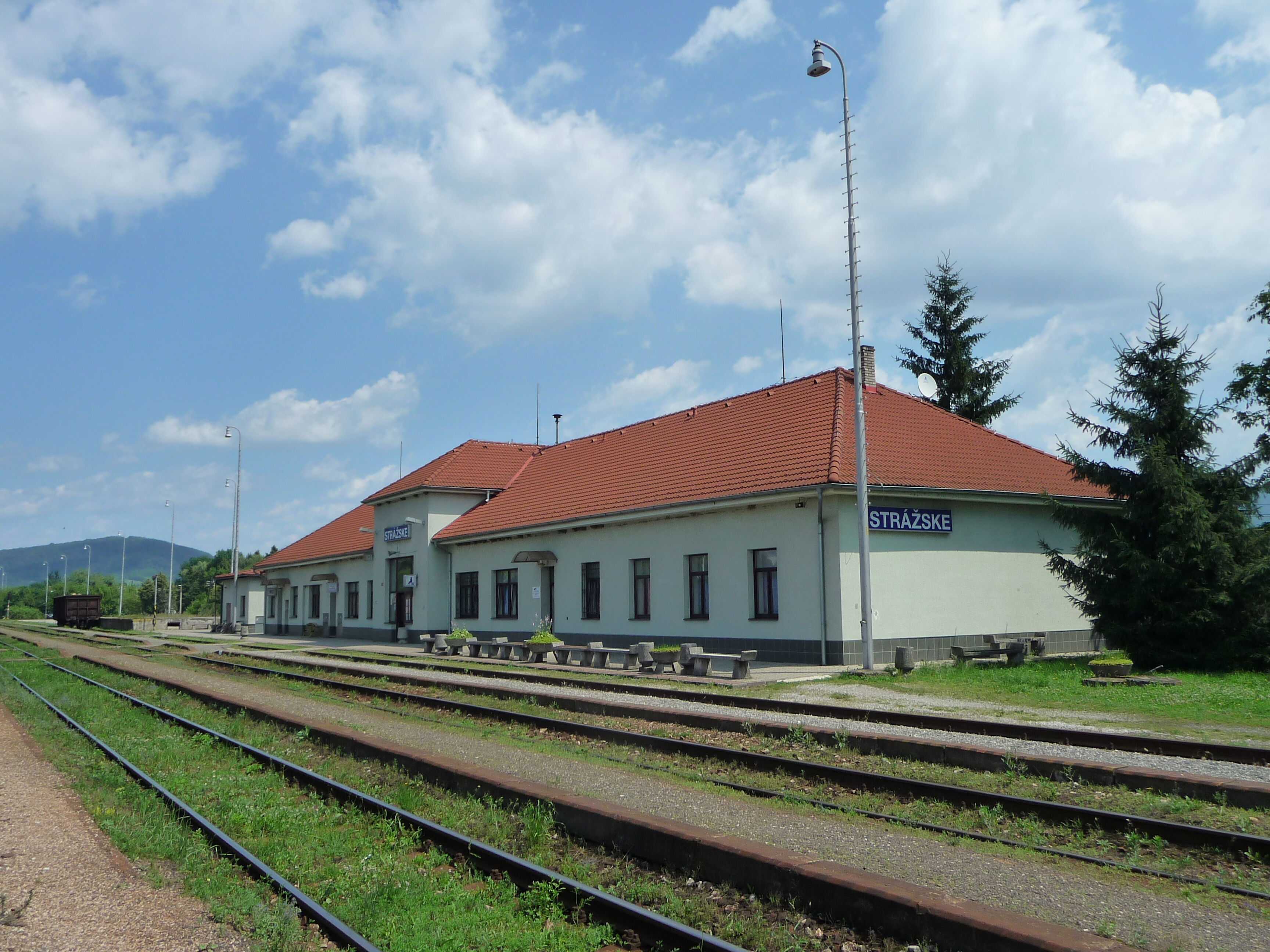 Railway station in Strážske (Košice Region, Slovakia).